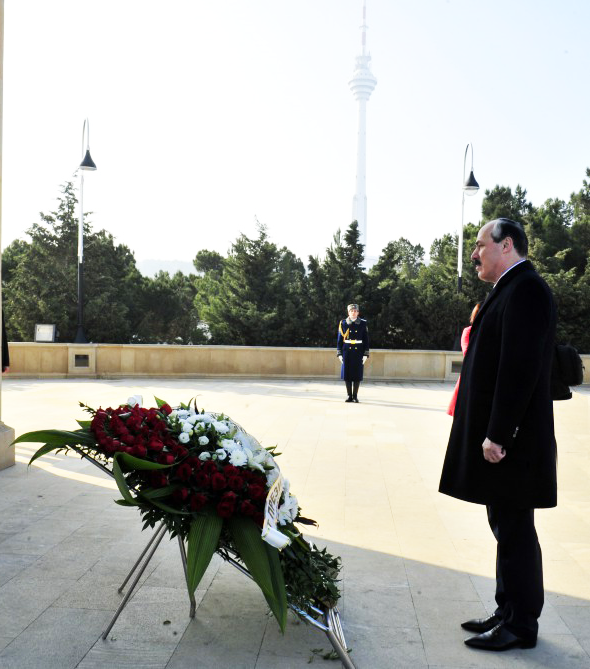 BAKU. President Ramazan Abdulatipov laid a wreath to the memorial Alley of Shehids.